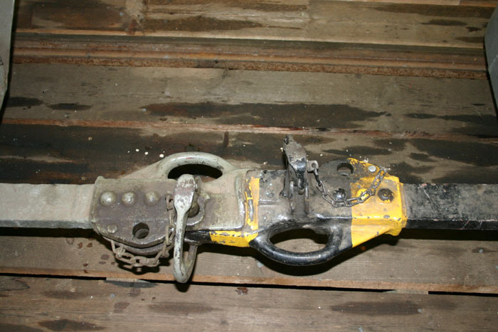 Albert coupling, old tram